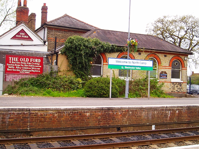 North Camp railway station